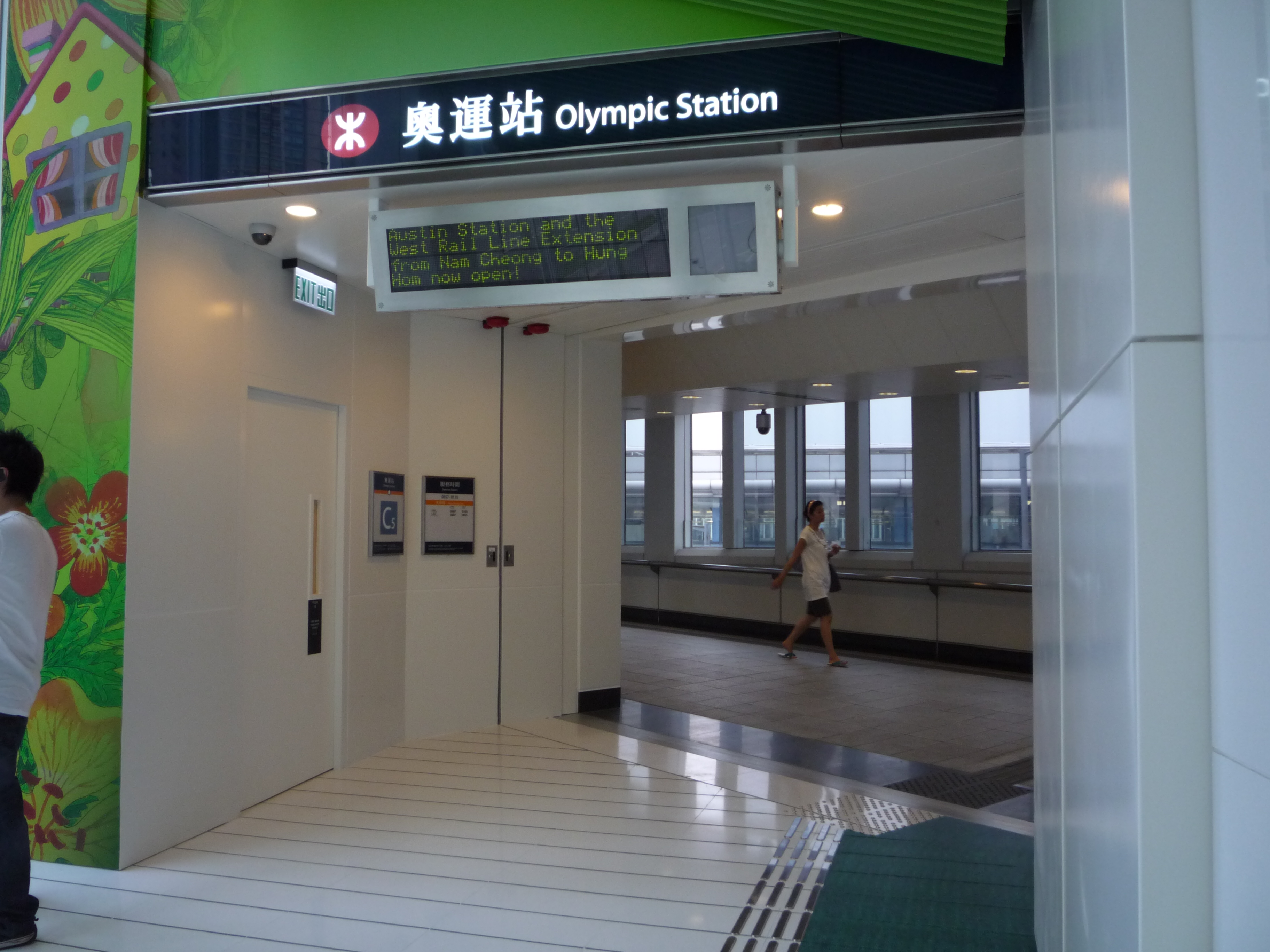 MTR Olympic Station Exit C5